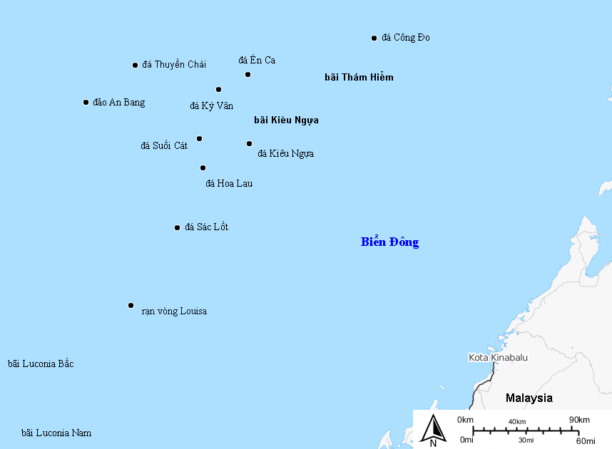 A simple map depicting main features of Malaysian claim over Spratly Islands. Important note: not all of them belong to the Spratlys (for example Luconia Shoals) as the term "Spratly Islands" has never been defined clearly by a prestigious international organization like the UN.